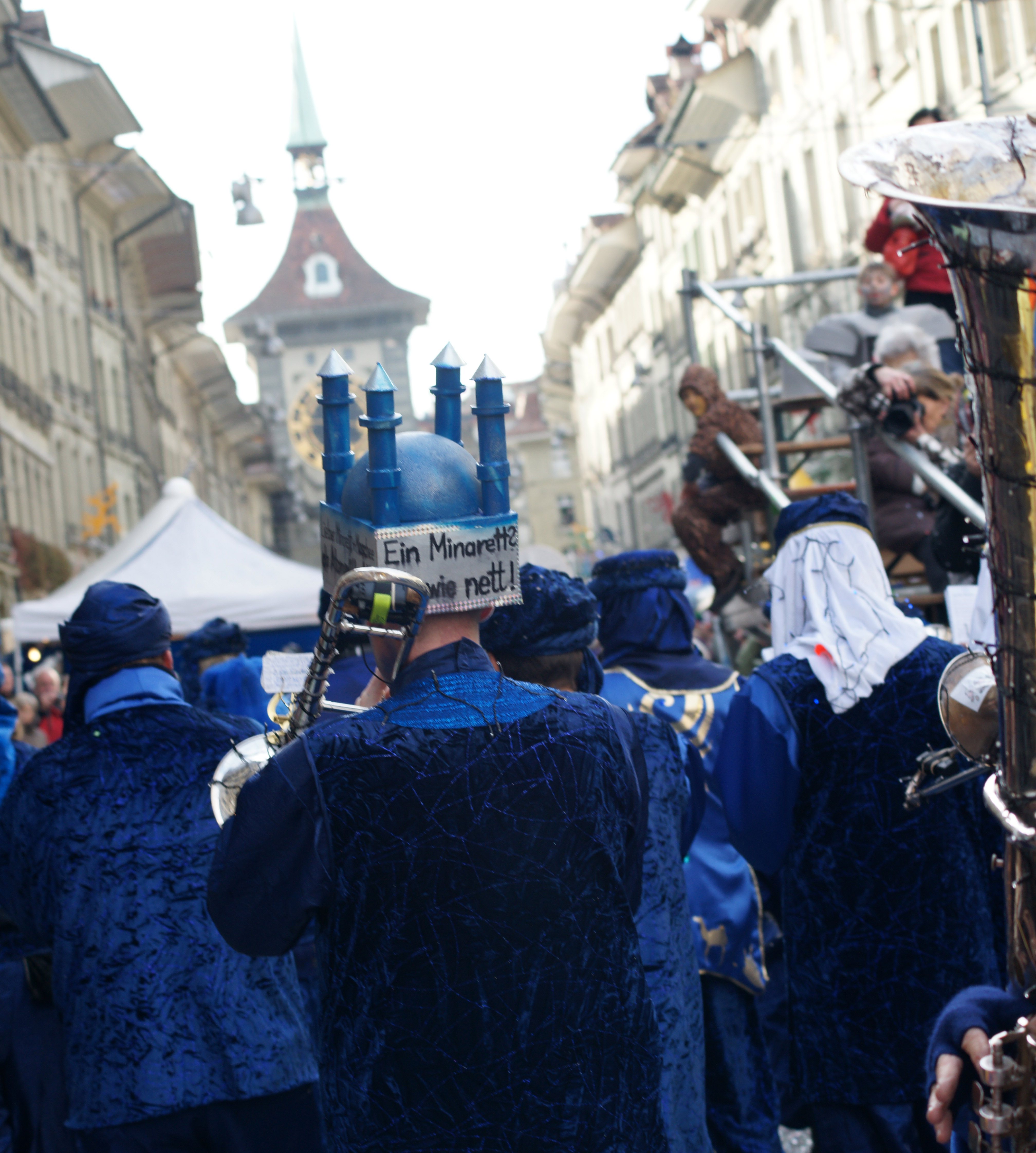 Participant in the Bernese Carnival 2010.